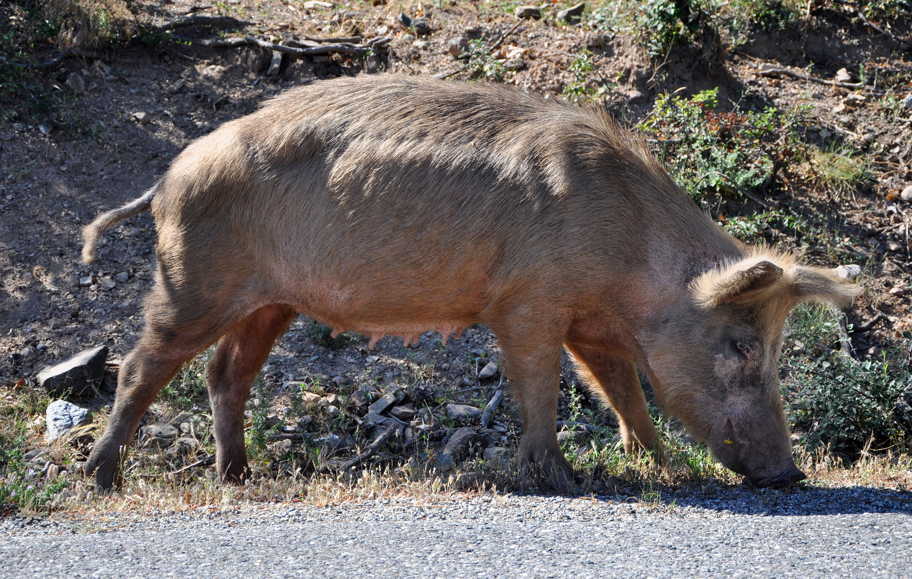 A pig on Corsica